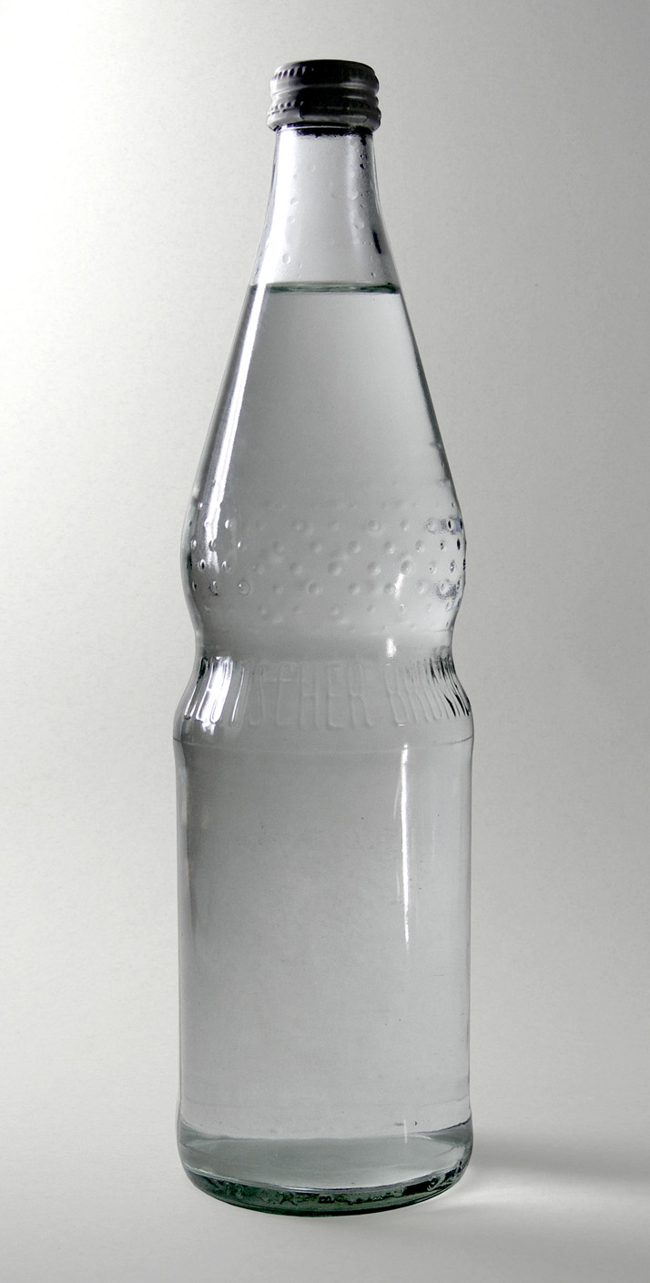 A German „ Normbrunnenflasche“ for mineral water etc., designed by Günter Kupetz. This bottle was produced in a number of about five billion pieces since 1969.